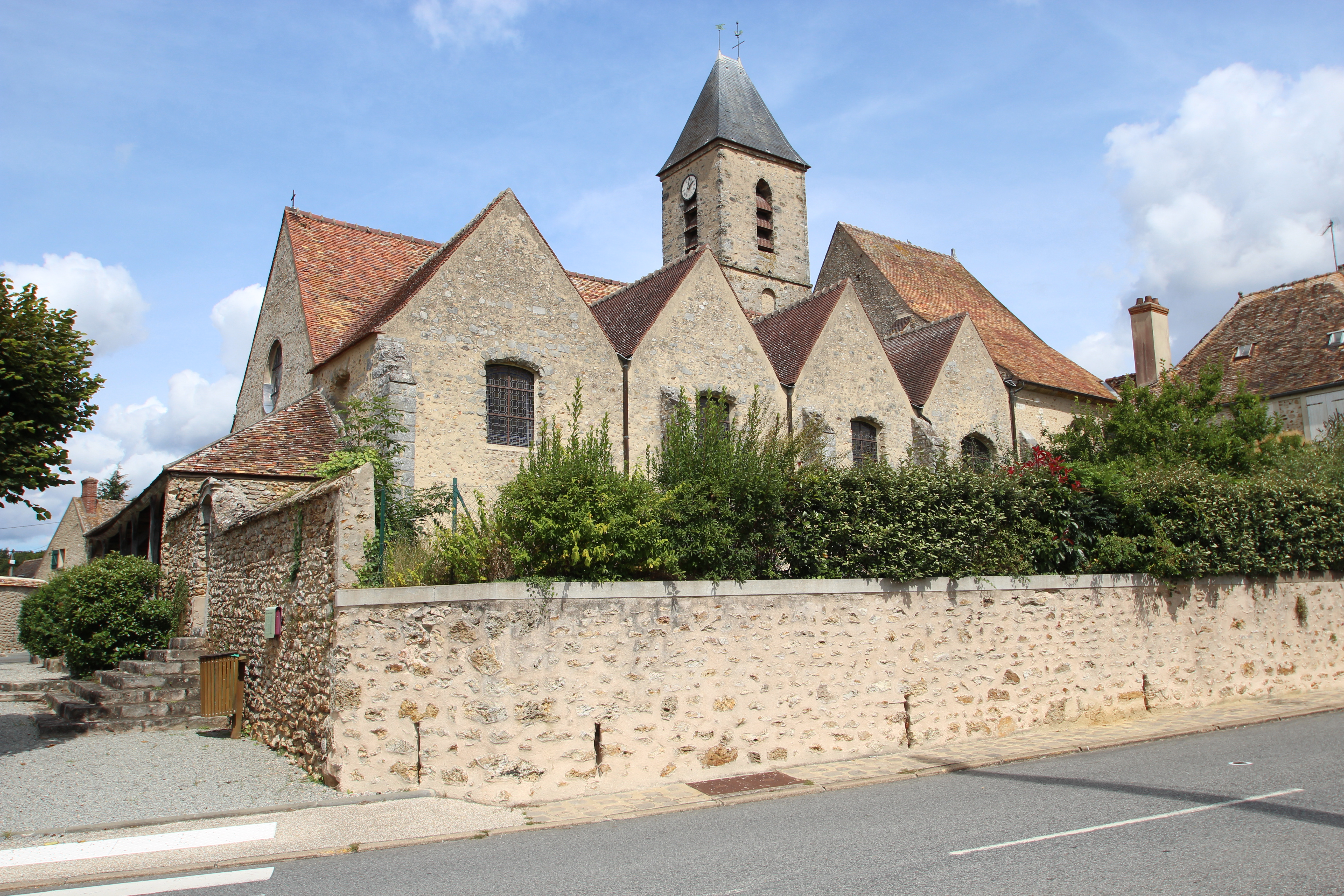 Saint-Vincent-et-Saint-Sébastien church in Bullion, Yvelines, France. . Object location48° 37′ 20.35″ N, 1° 59′ 47.98″ E